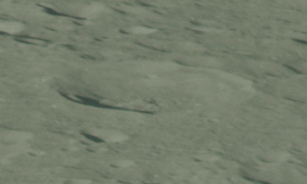 Oblique view of Nikolaev crater, on the far side of the moon, facing north.